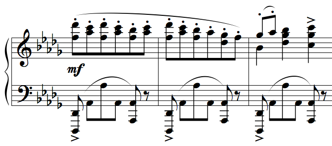 Lolita, Op. 54, by Cécile Chaminade